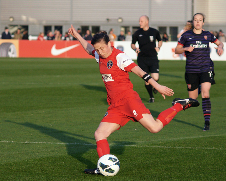 Ann-Marie Heatherson in action against Arsenal at Stoke Gifford